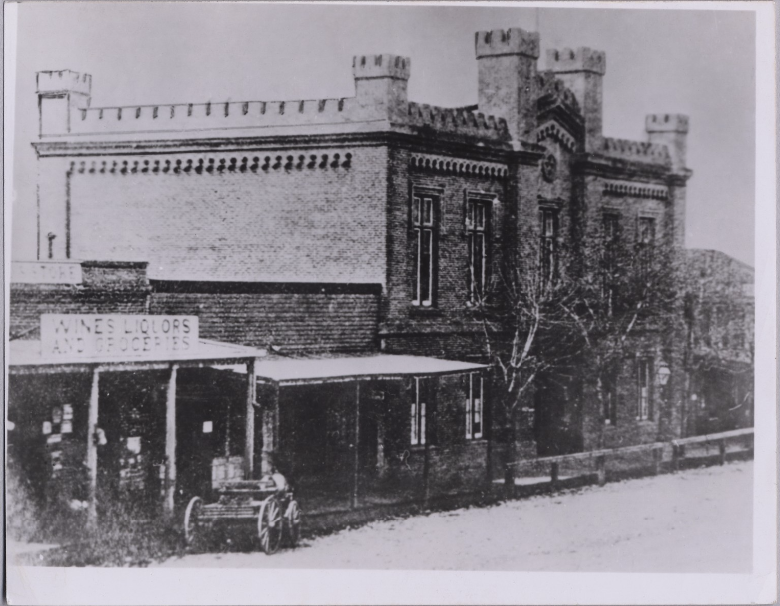 Black-and-white photograph of castle-like San Jose City Hall in 1854. Photo also includes general store with "Wines Liquors and Groceries" sign at left of City Hall.